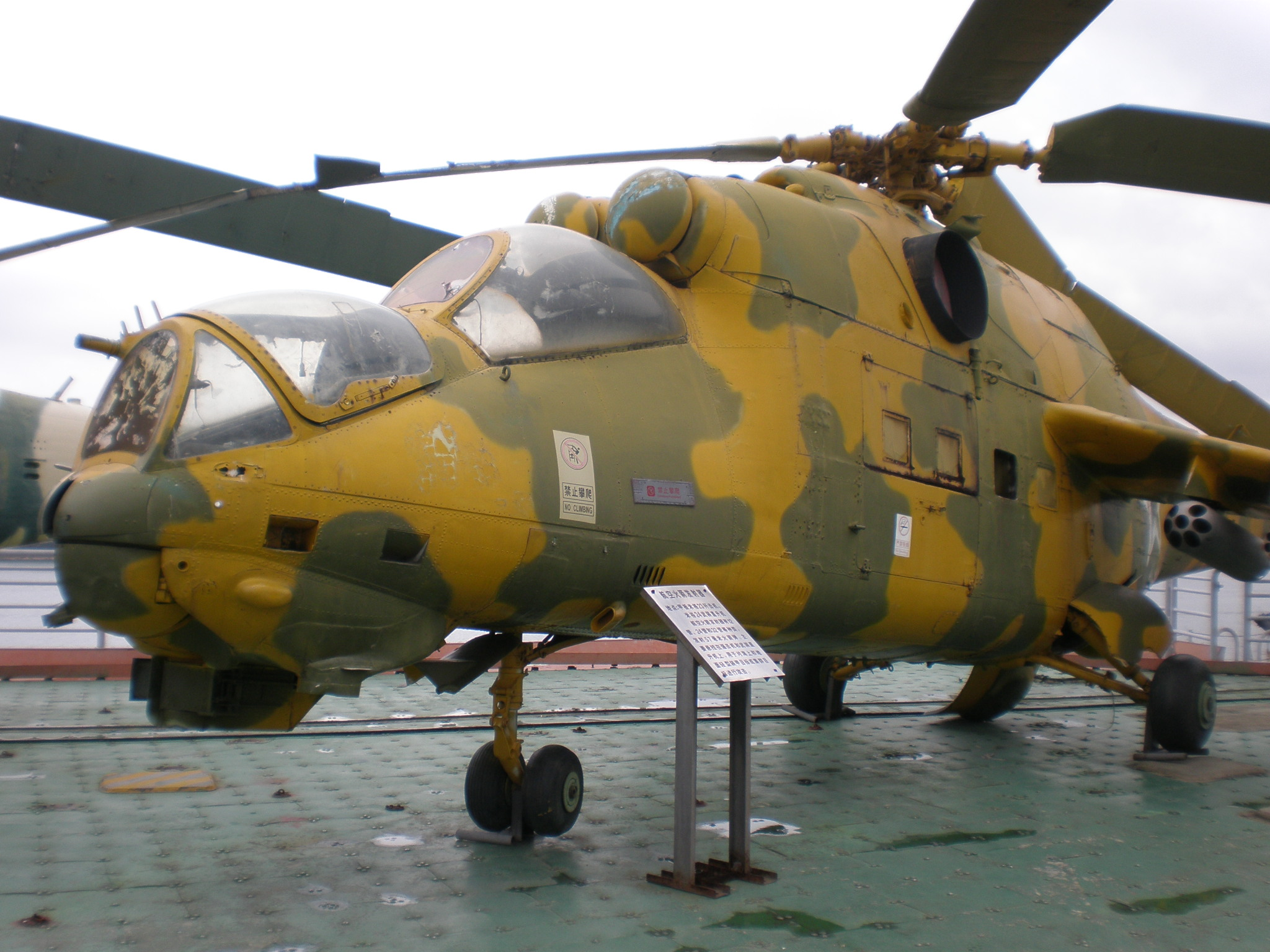 A yellow Mil Mi-24 Hind on display on the flight deck of the aircraft carrier Minsk, located at the Minsk World theme park in Shenzhen, PRC.